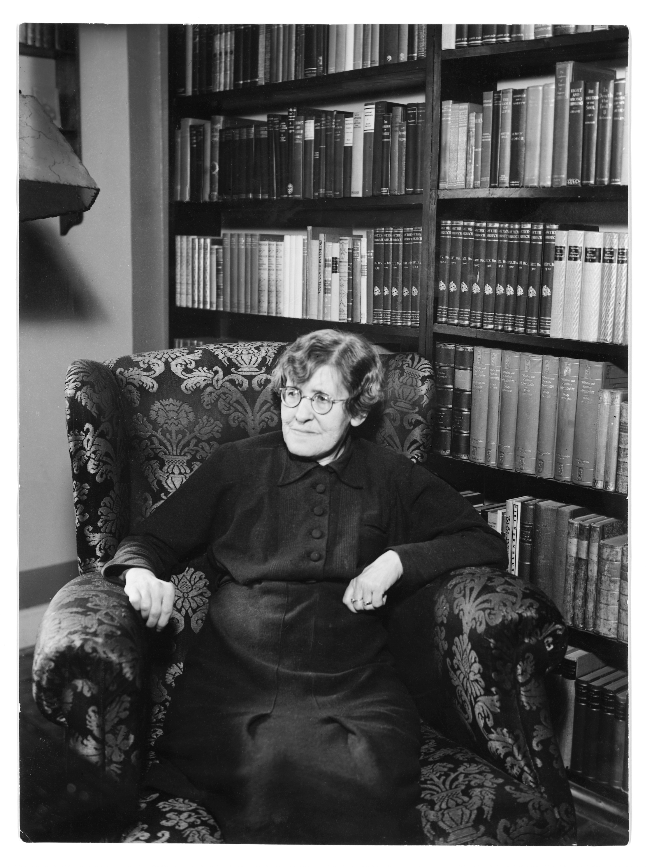 Klara Elisabeth Johanson (6 October 1875 – 8 October 1948) was a Swedish literary critic and essayist.